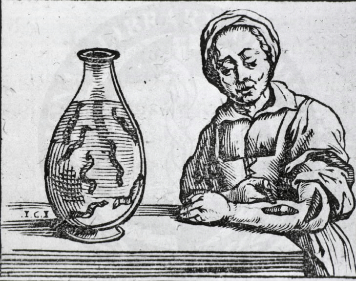 A woman standing at a table has placed a leech on her left forearm; on the table is a large jar containing leeches. Illustrated In: Bossche, Guillaume van den, Bruxellas, Typis Joannis Mommarti, 1639 Historia medica, in qua libris IV. animalium natura, et eorum medica utilitas esacte & luculenter...